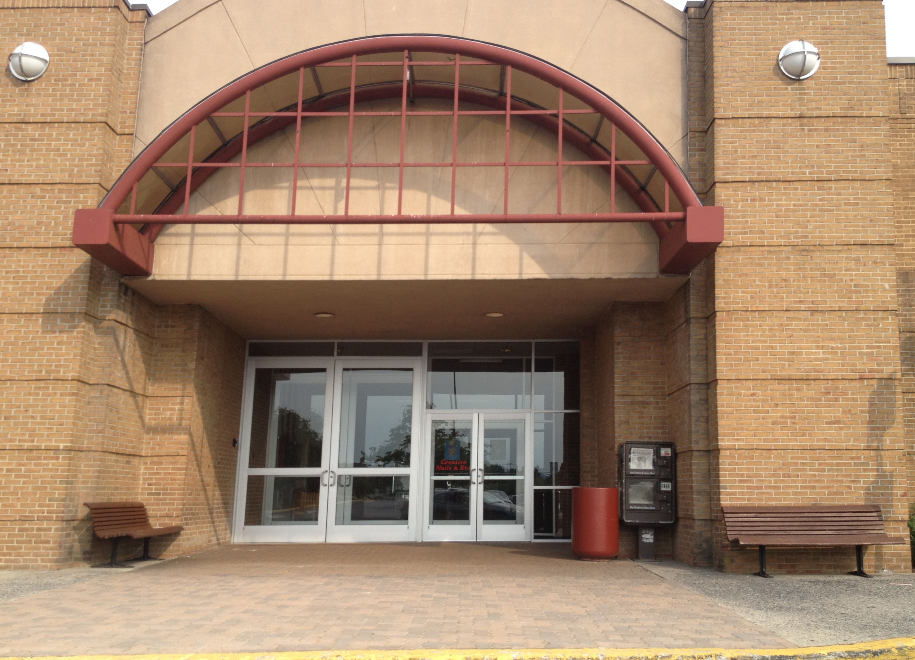 Francis Scott Key Mall